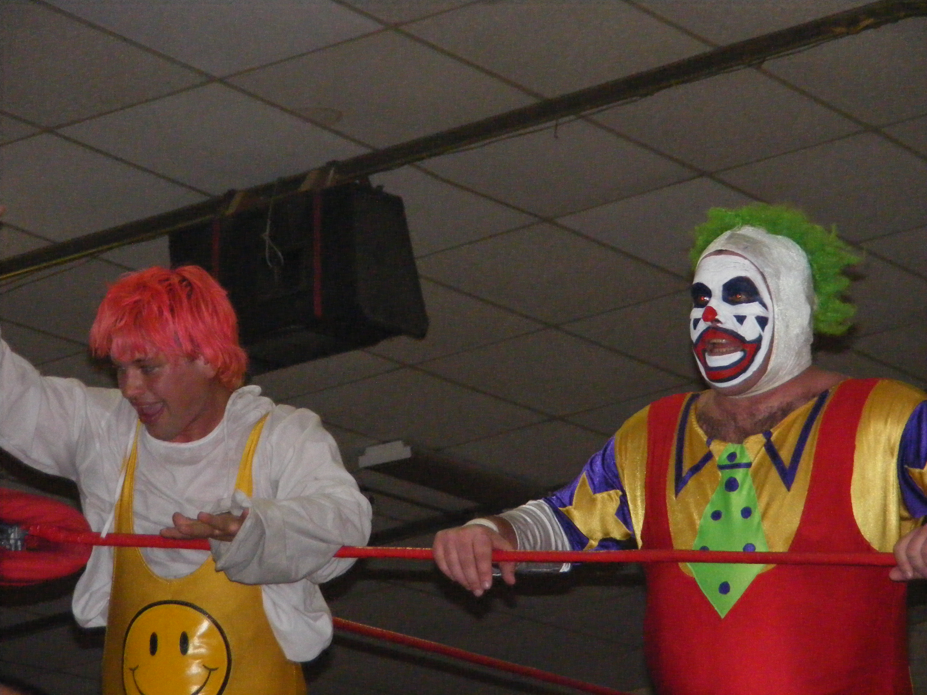 Doink with Psycho.